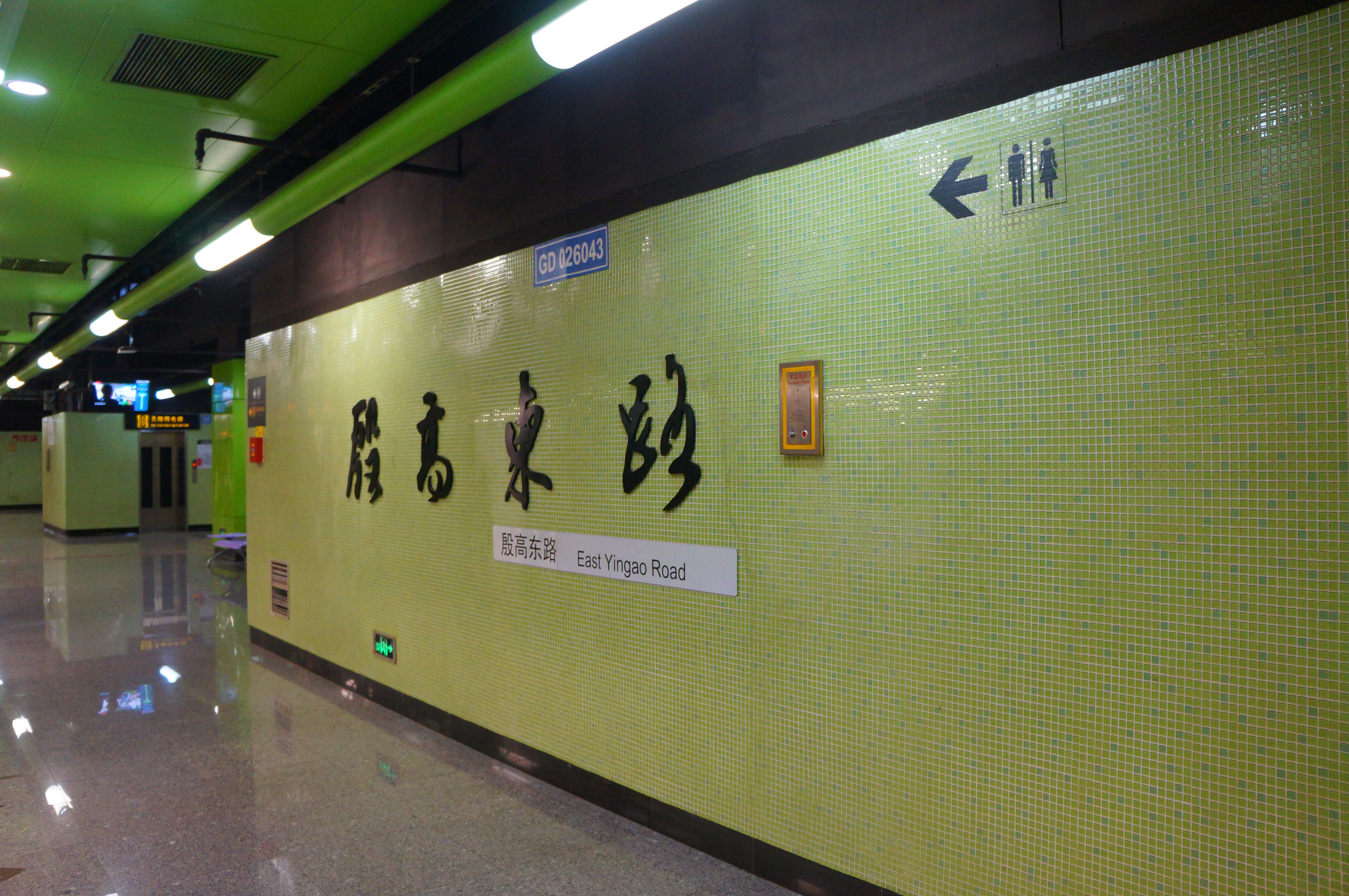 201704 Nameboard of East Yingao Road Station